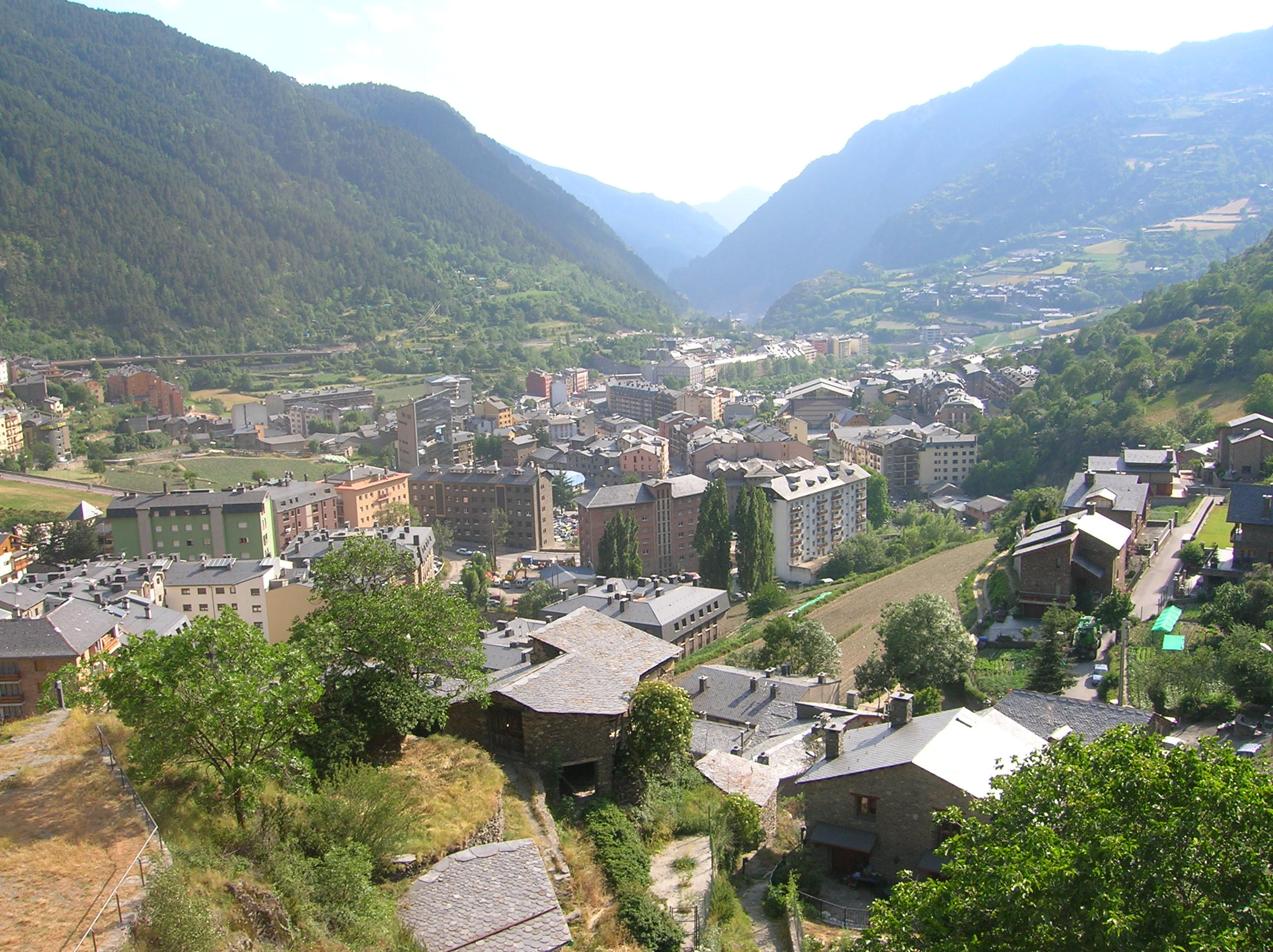 The town of Encamp, Andorra, looking south across the valley of the Valira d'Orient river. The CG-2 main road can just be seen on the far side of the valley.